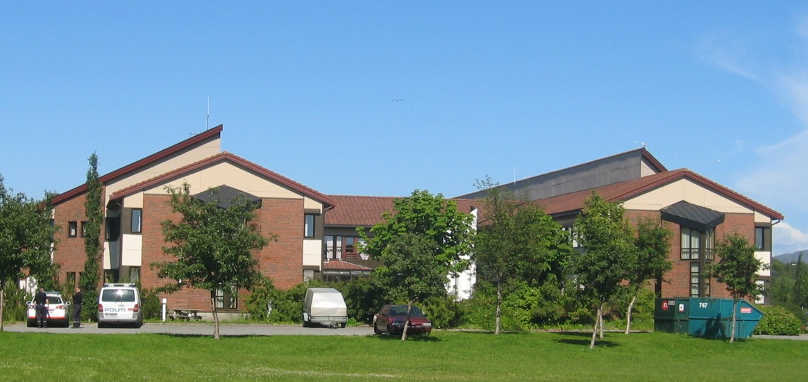 Town hall of Brønnøy, Norway